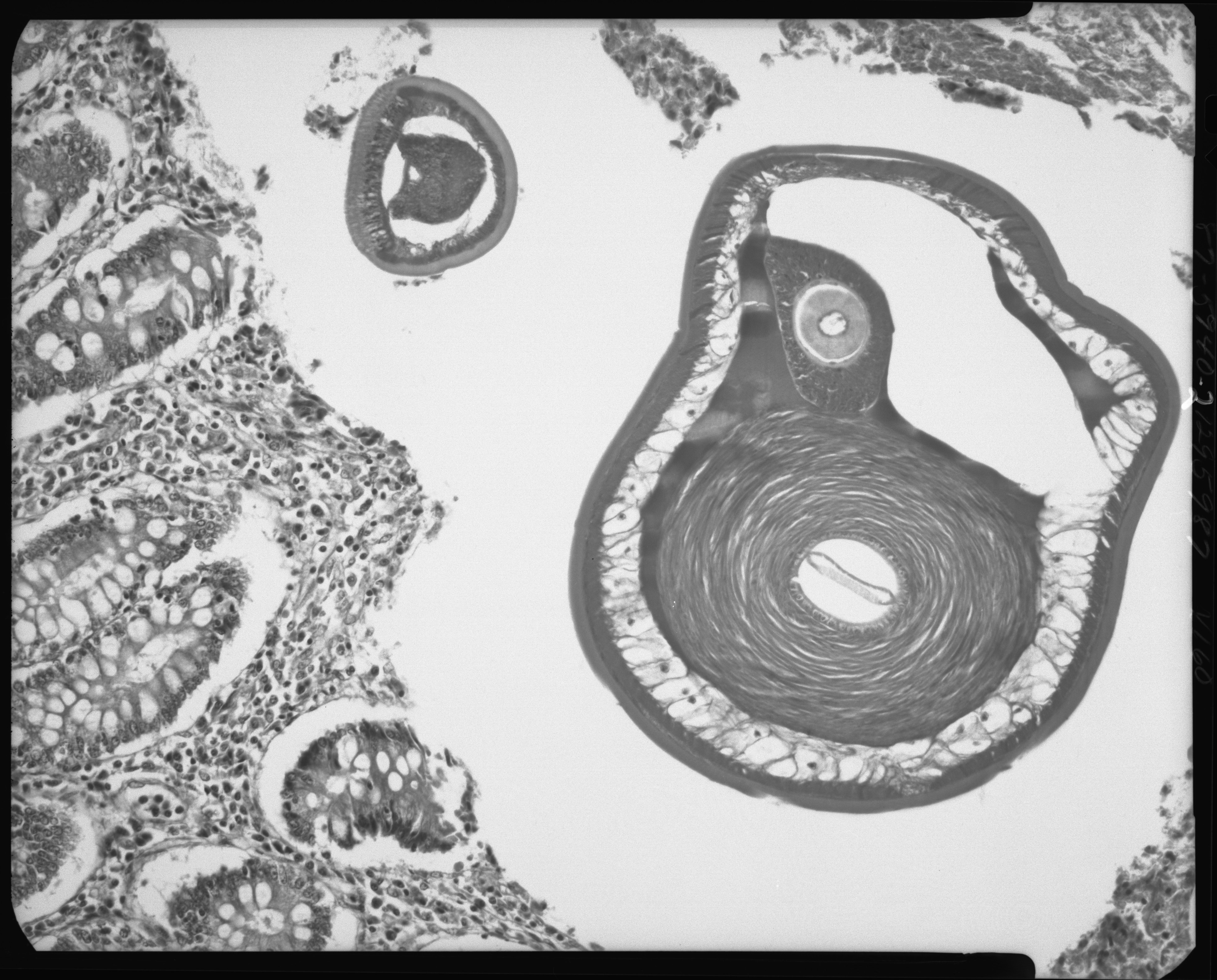 Trichuris in appendix, adult.